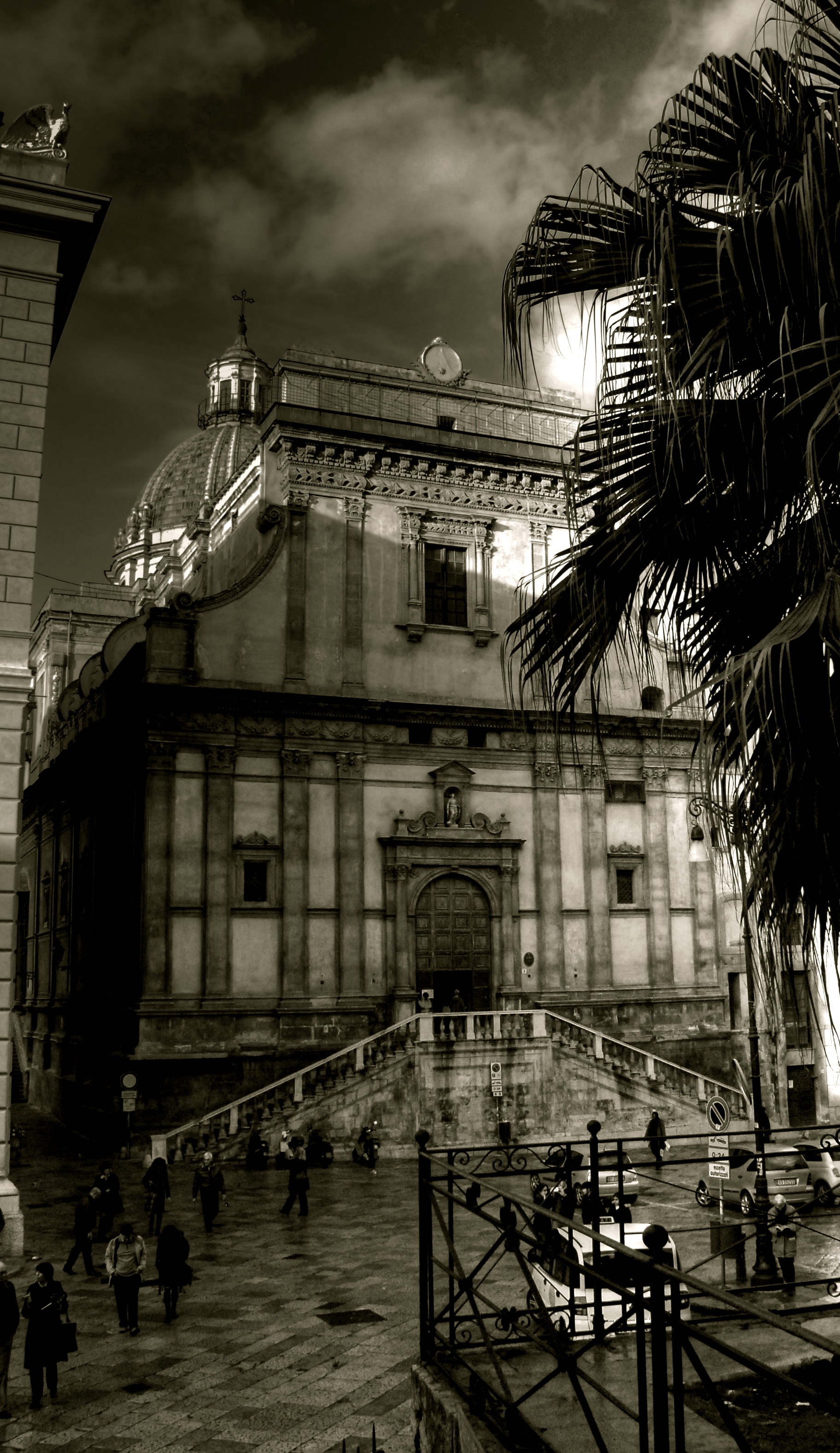 Piazza Bellini, Palermo, with the facade of the church of Santa Caterina